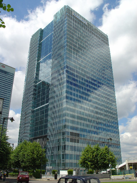 Canary Wharf. Barclays Bank building, Canary Wharf